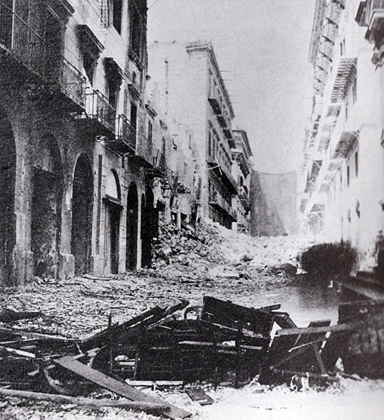 Battle of Palermo - 1860 - Quattro Venti quartier: a large blanket is drapped across the road to block the visual comunication between borbonic troops in the castle and borbonic fleet